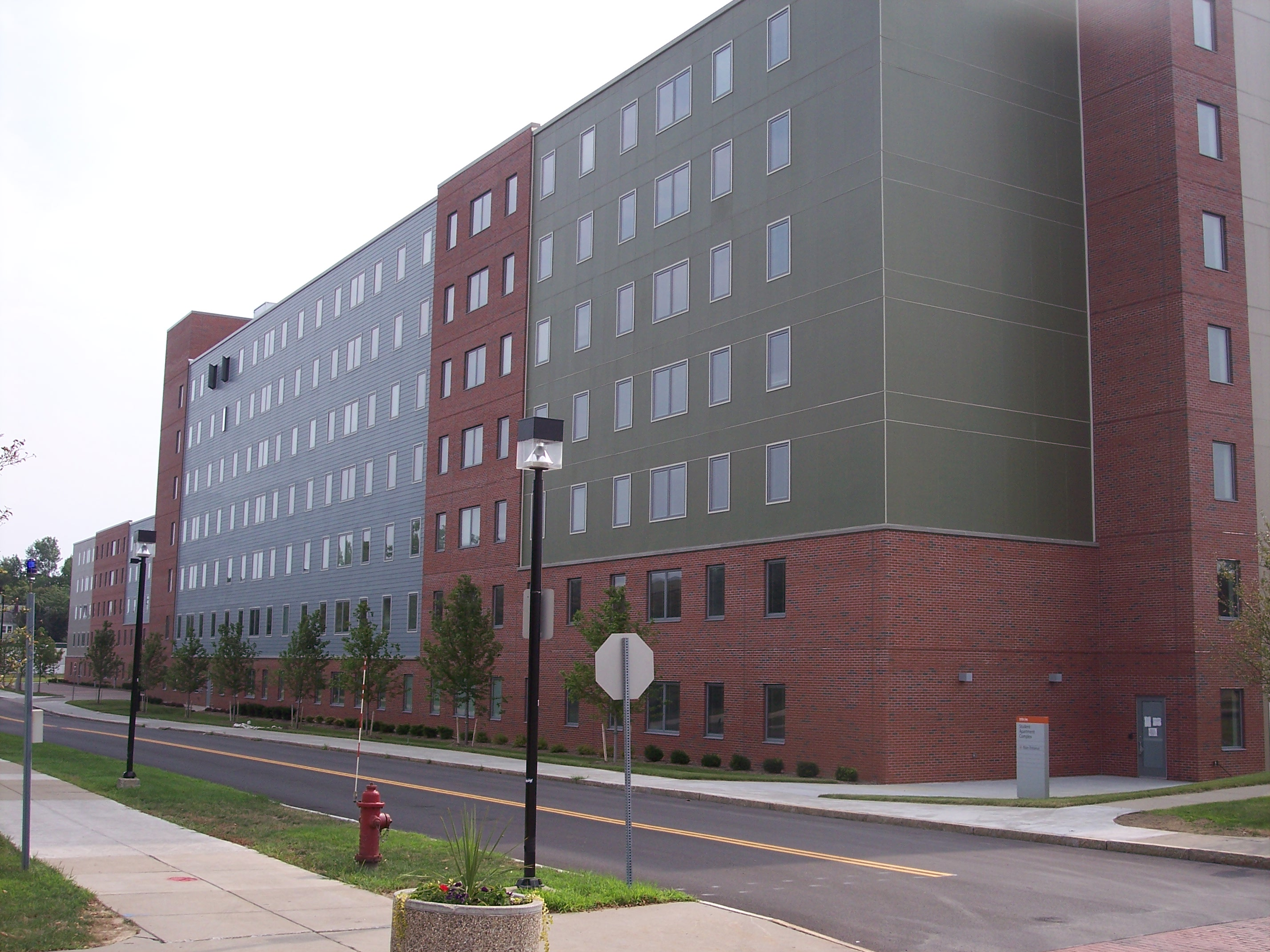 "The Lofts" a buffalo state college residential dorm